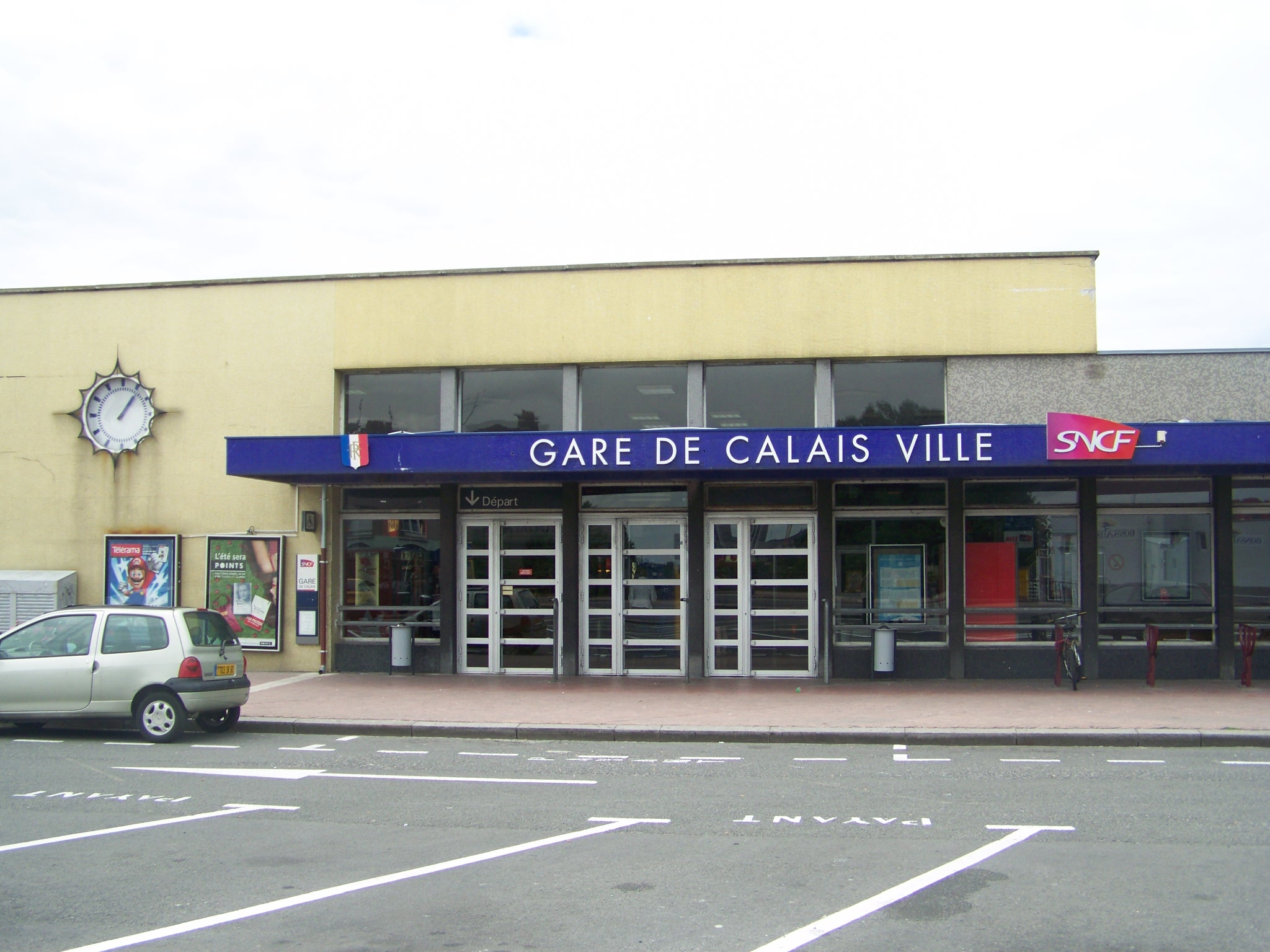 Entrance of the city of Calais railway station, in Pas-de-Calais, France.